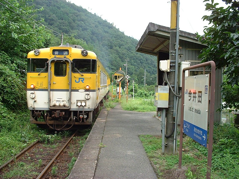 Imaida Station at the beginning of the suspended part of the Kabe Line, formerly on the JR West Kabe Line in Hiroshima, Hiroshima Prefecture, Japan.